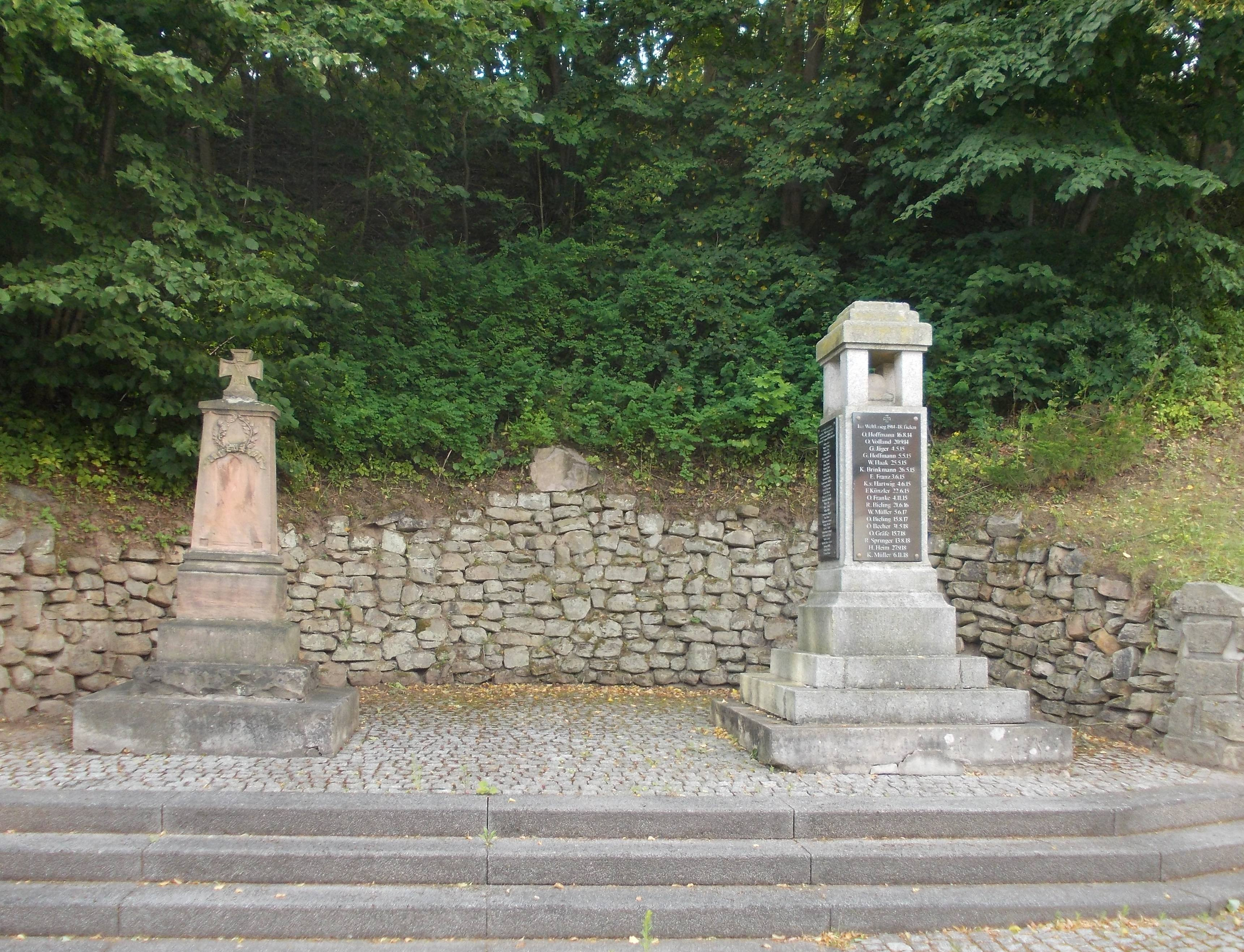 Memorials to the wars of 1870/71 and 1914/18 in Grosswangen (Nebra, district: Burgenlandkreis, Saxony-Anhalt)